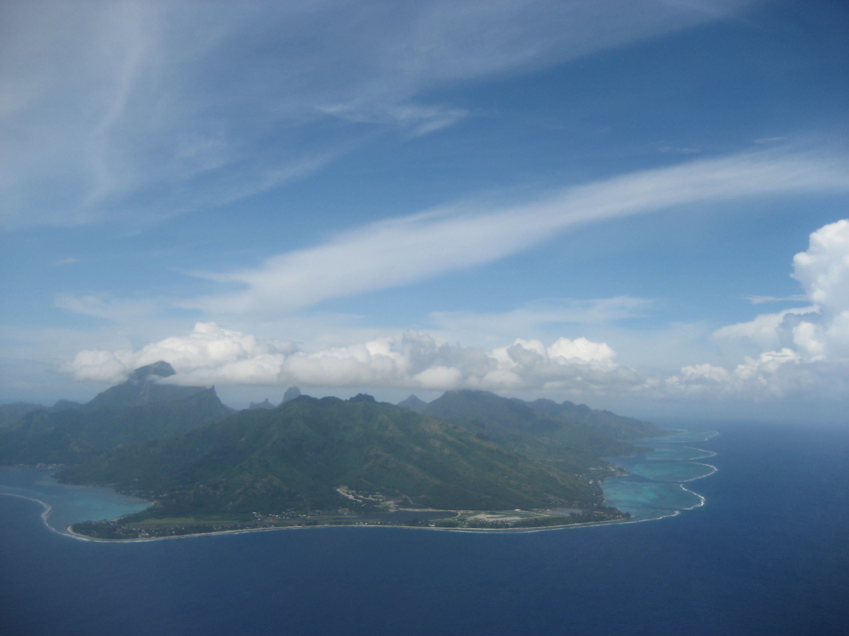 Coming in to Huahini